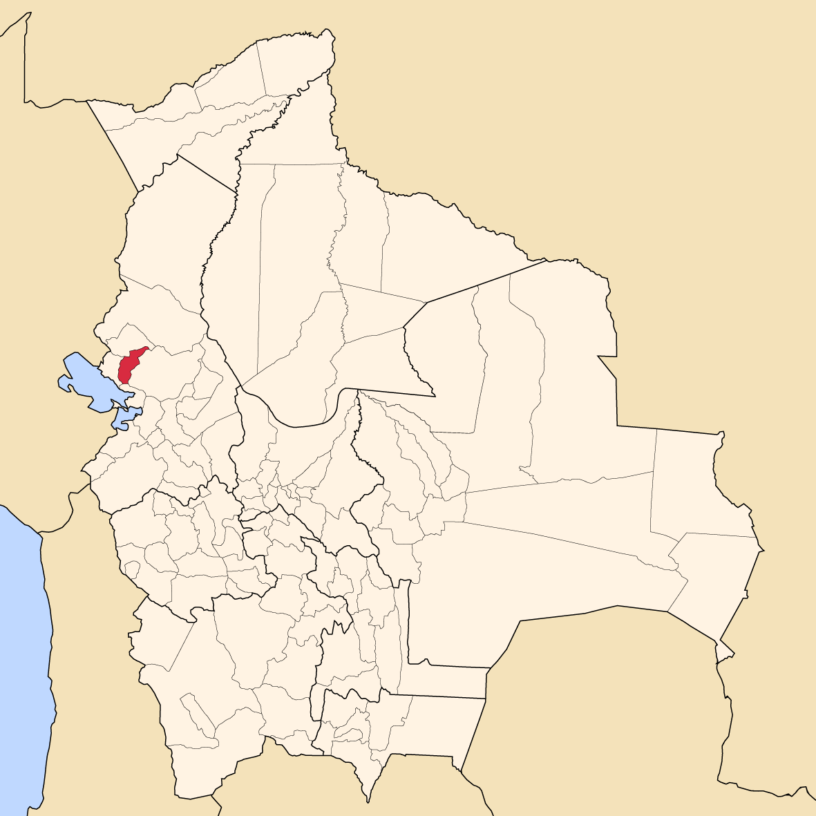 Map of Bolivia showing Muñecas province, La Paz